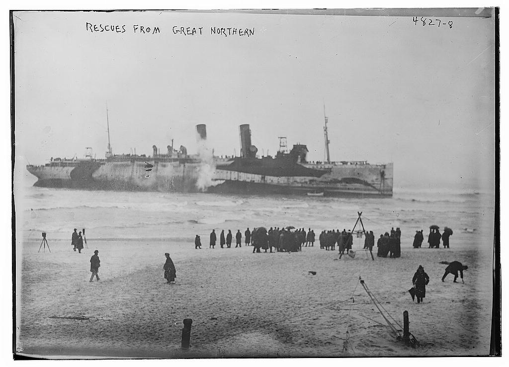 Rescues from Great Northern on January 1, 1919 off of Fire Island